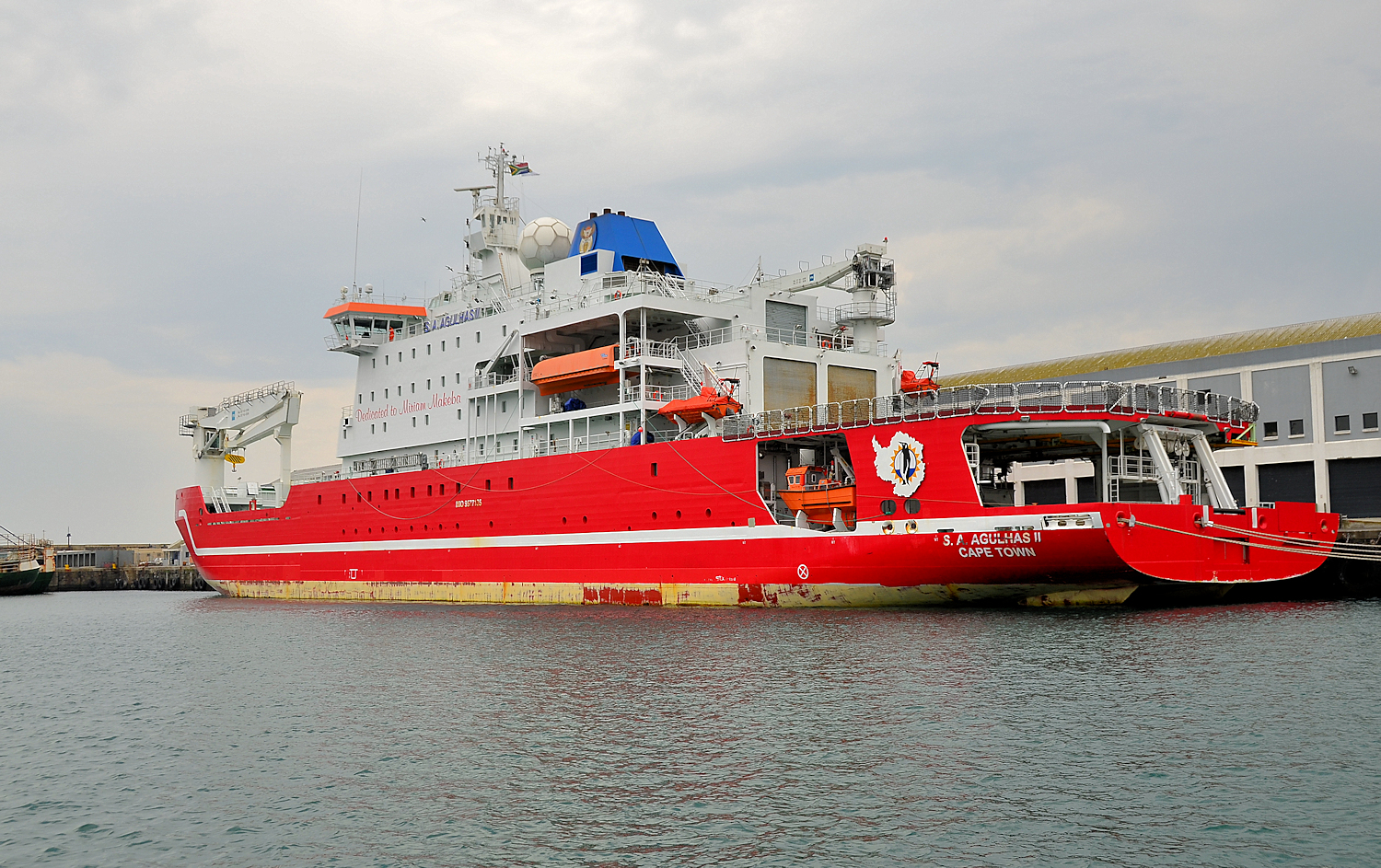 S. A. Agulhas II is a South African icebreaking polar supply and research ship.